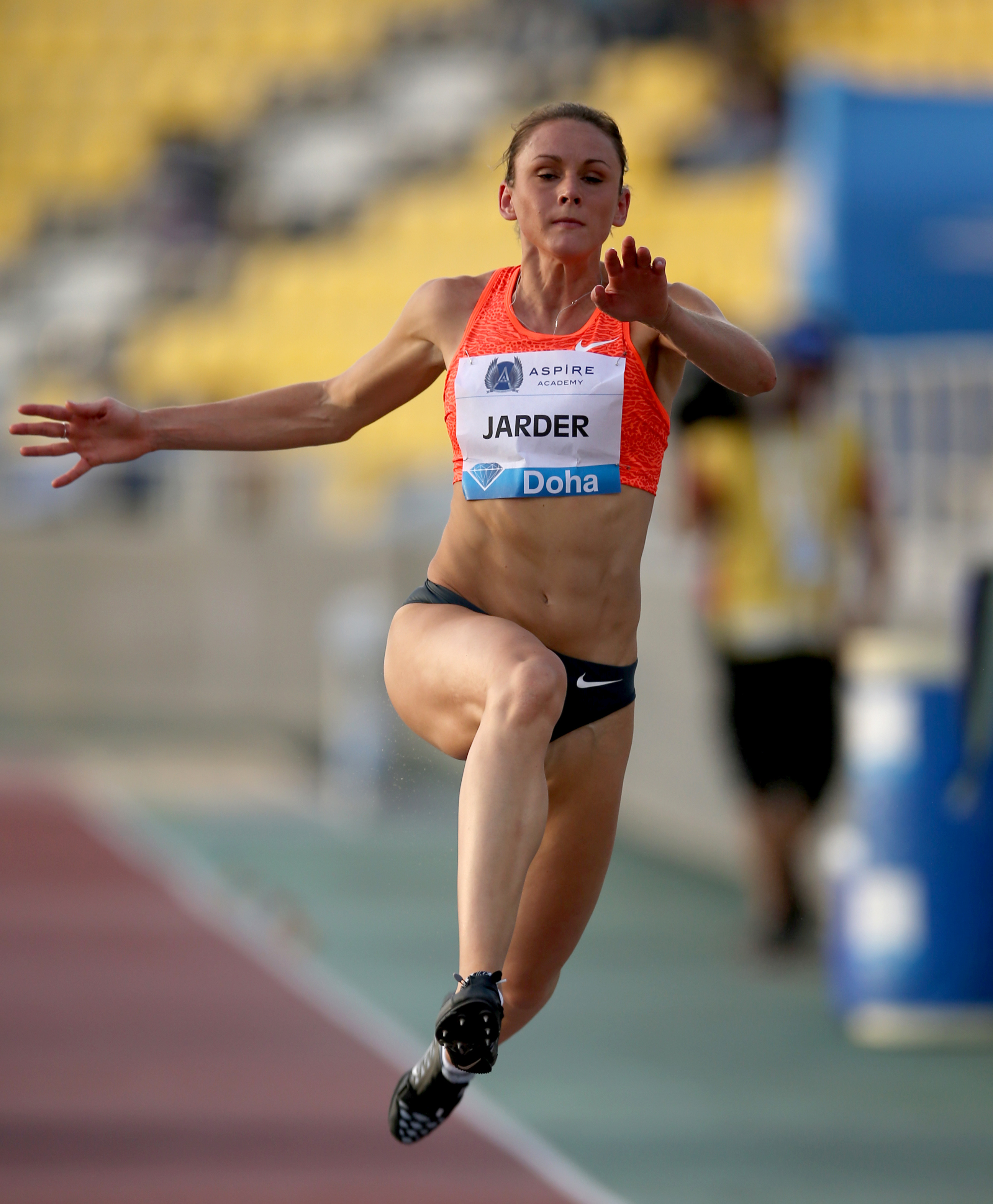 Sweden's Erica Jarder competes in women's long jump at the Doha Diamond League. Pic by Mohan